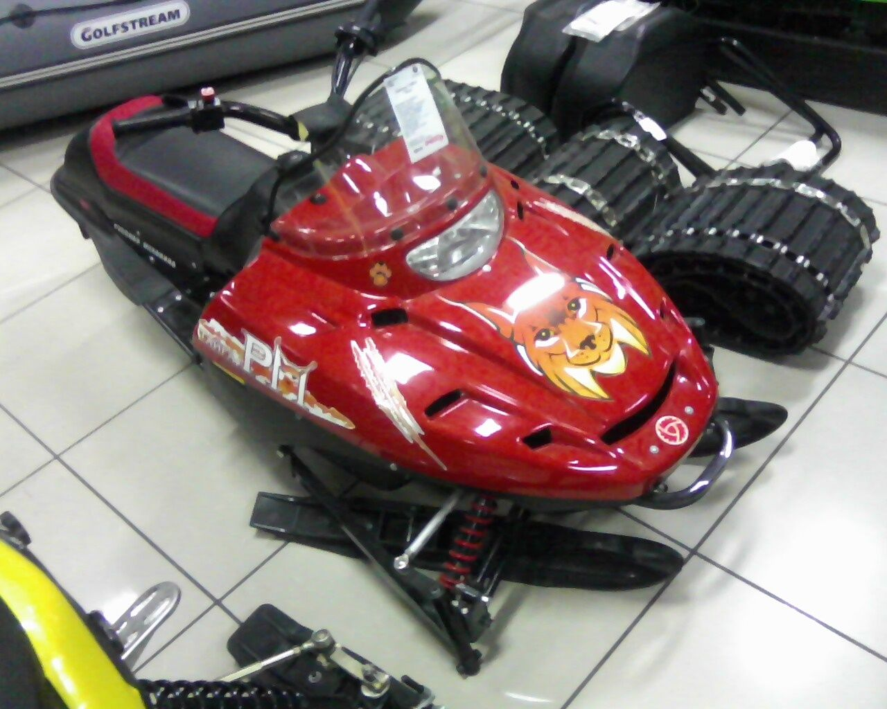 Snowmobiles in Russia